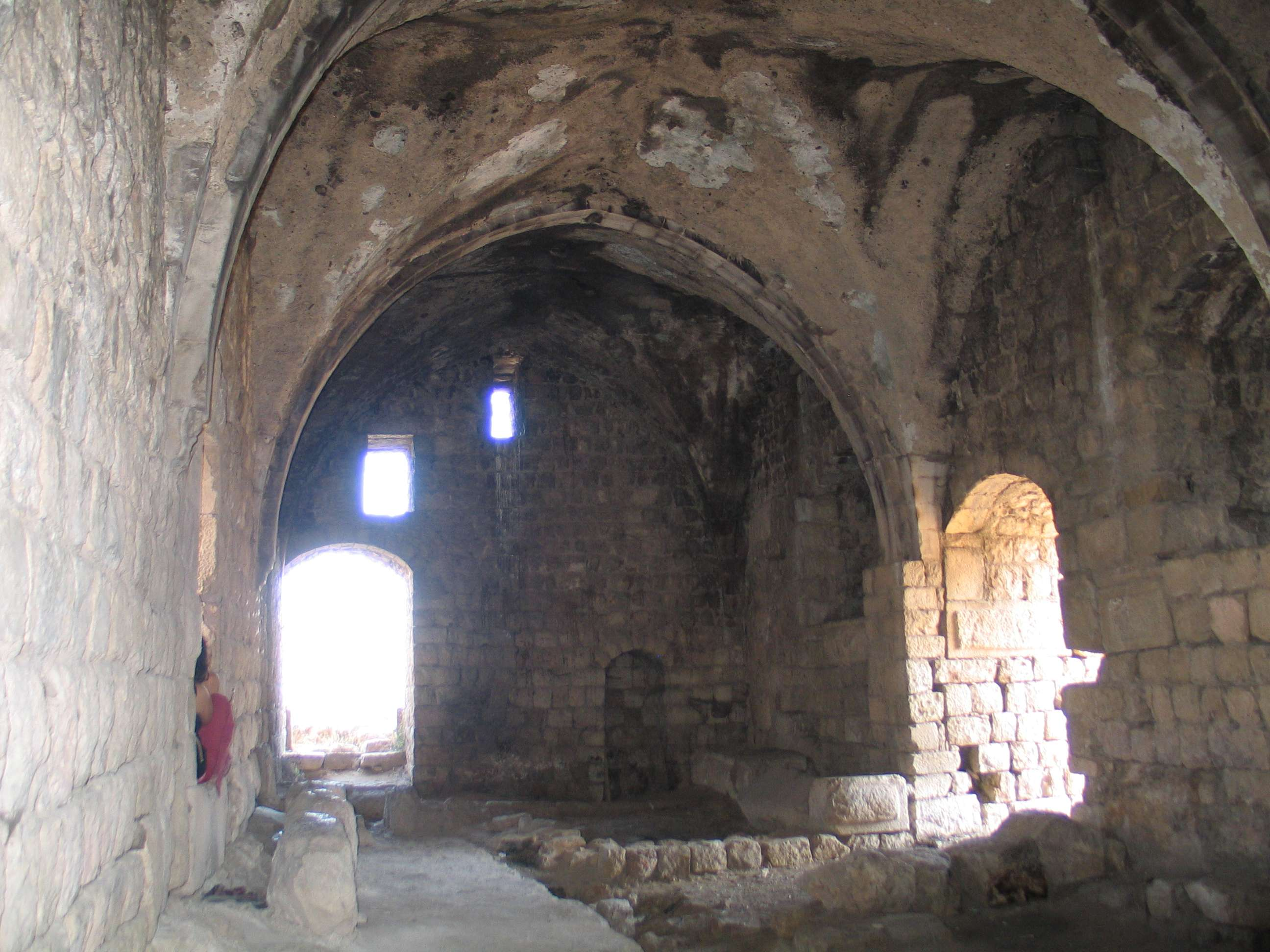 Chateau Neuf (Hunin fortress), near moshav Margaliot, Israel.